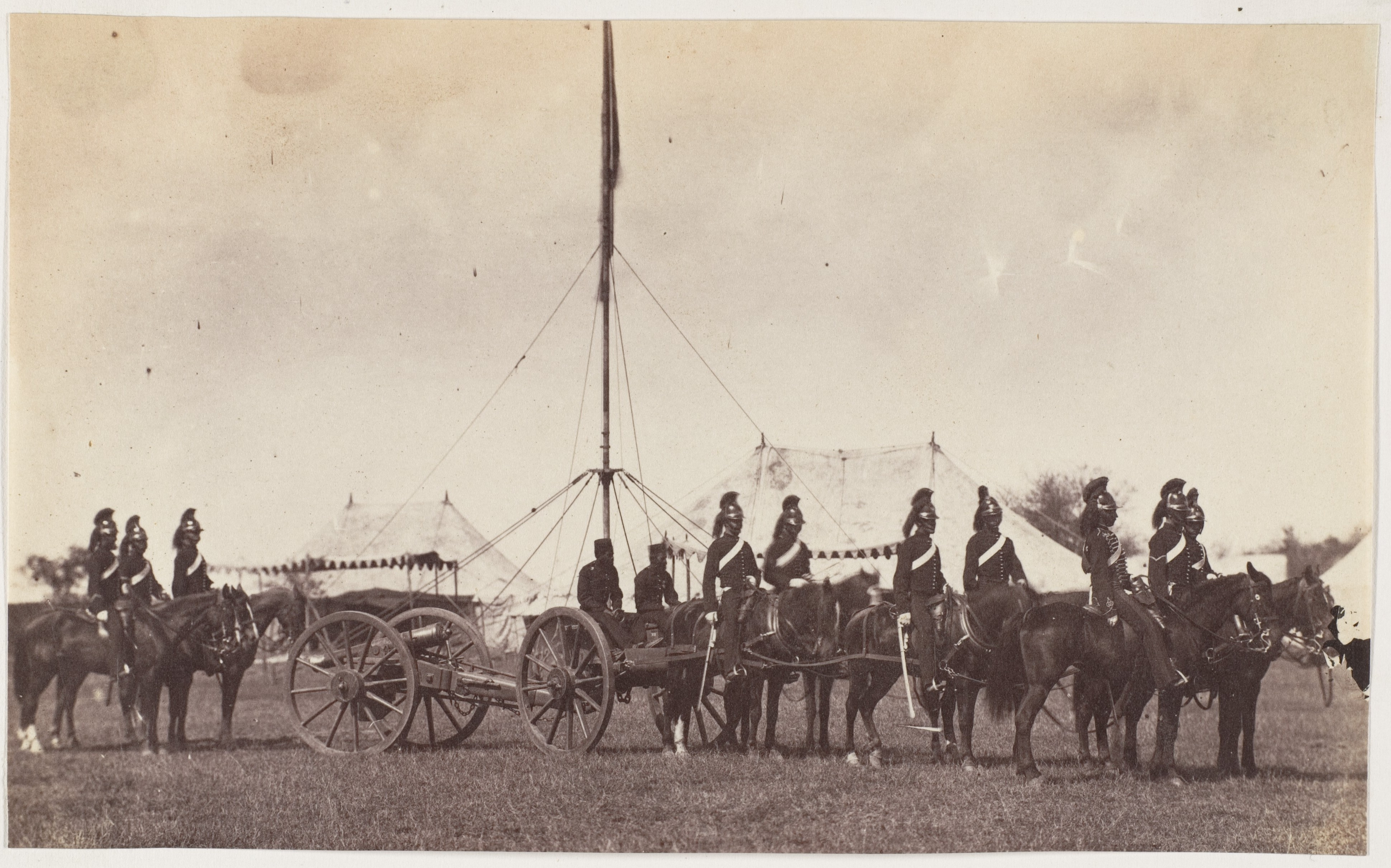 Apparently, K Battery of the 2nd Troop, Bengal Horse Artillery, 1860. It was all mounted to ensure greater maneuverability which was unusual during that period. On 19 February 1862, the Bengal Horse Artillery transferred to the Royal Artillery as its 2nd and 5th Horse Brigades